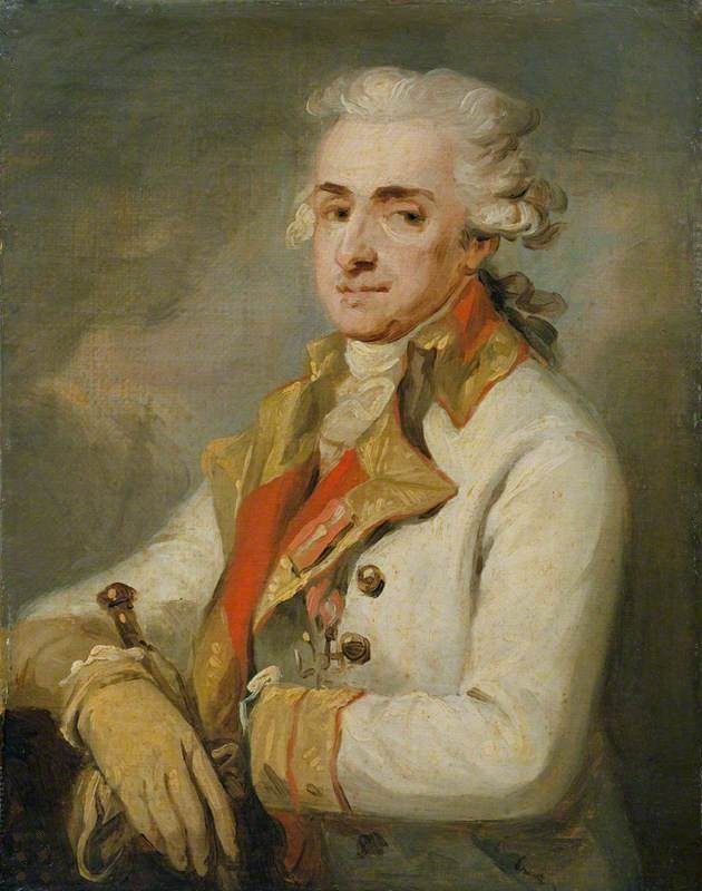 Portrait of Charles-Joseph de Ligne (1735-1814)